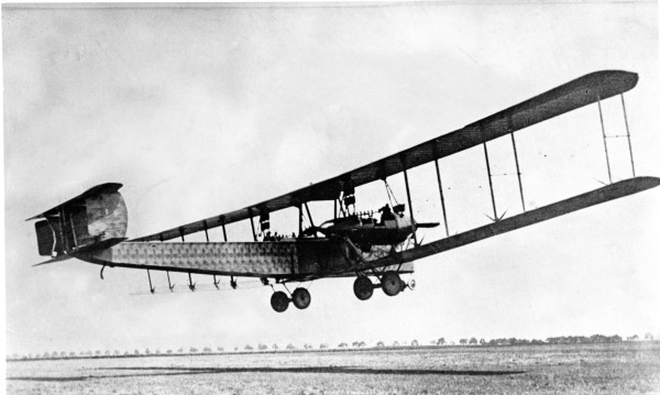 PictionID:43639426 - Catalog:16_004672 - Title: Zeppelin-Staaken R.VI - Filename:16_004672.TIF - - - - - - - Image from the Ray Wagner Collection. Ray Wagner was Archivist at the San Diego Air and Space Museum for several years and is an author of several books on aviation --- ---Please Tag these images so that the information can be permanently stored with the digital file.---Repository: San Diego Air and Space Museum